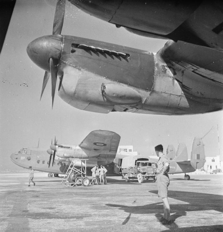 Royal Air Force Transport Command, 1943-1945. Avro York C Mark I, MW165 'BP', of No. 246 Squadron RAF being loaded with freight at Luqa, Malta, while staging through to the Far East.